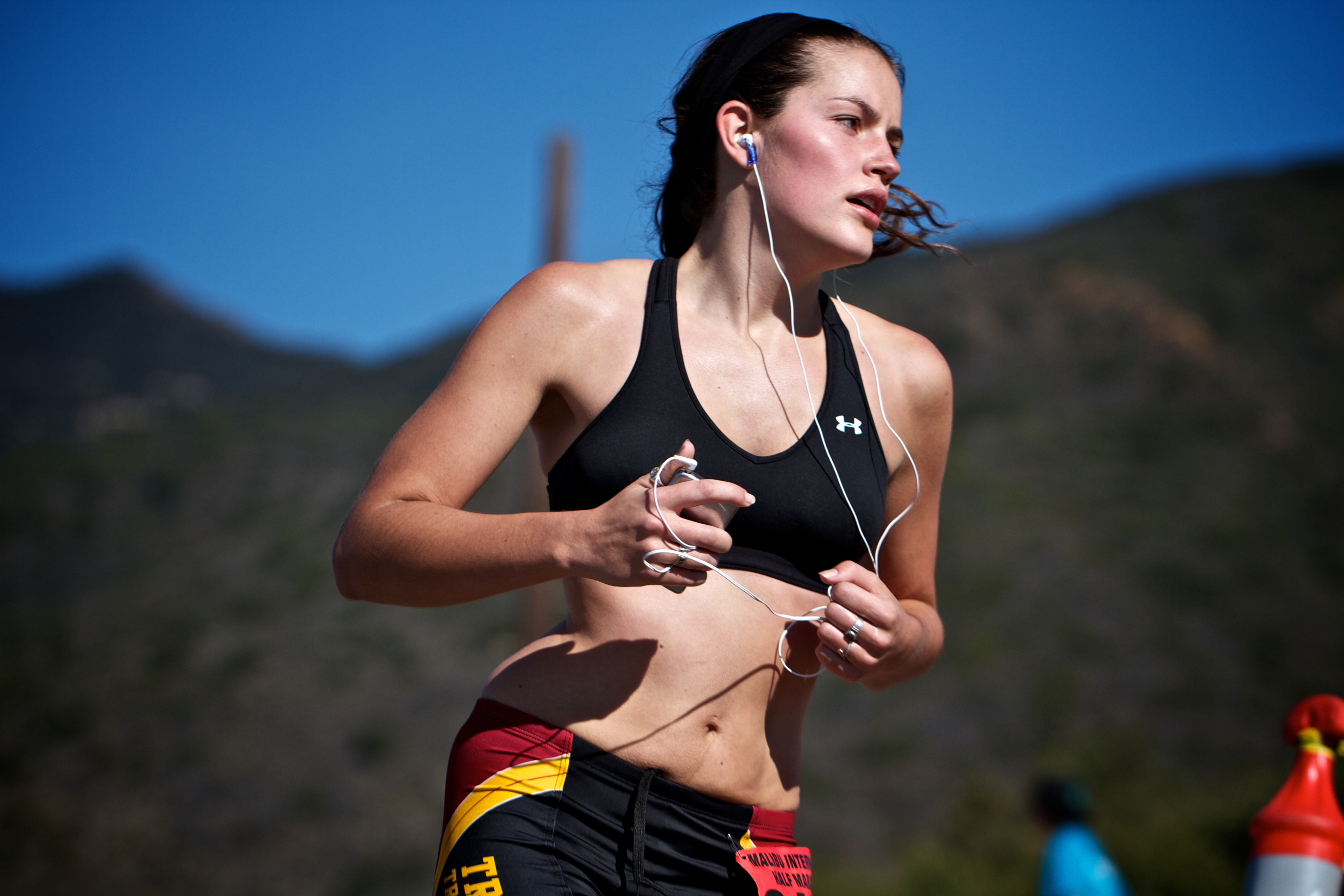 Home Stretch